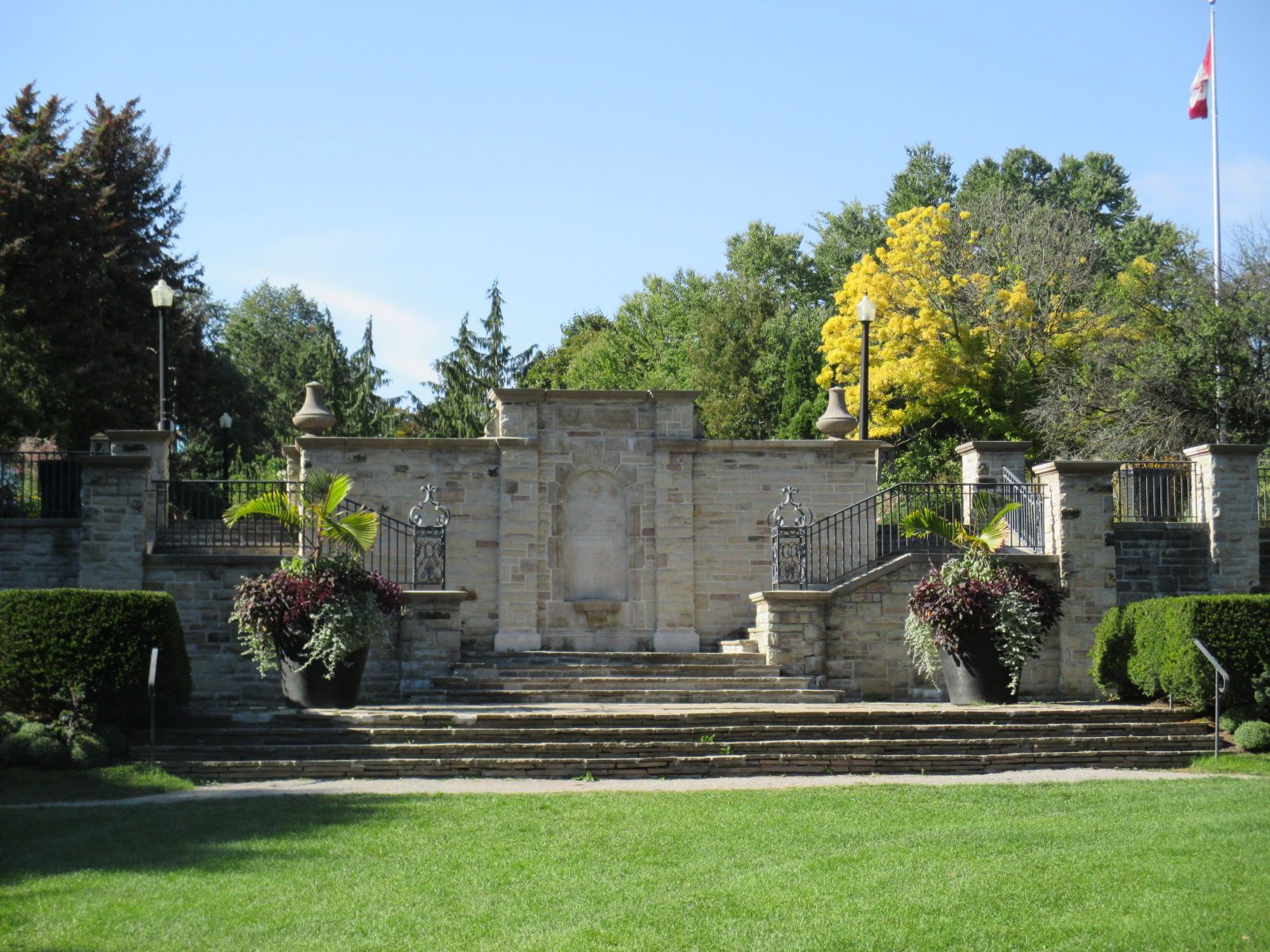 Alexander Muir Memorial Gardens: Monument dedicated to Alexander Muir and inscribed with the refrain from the song The Maple Leaf Forever.